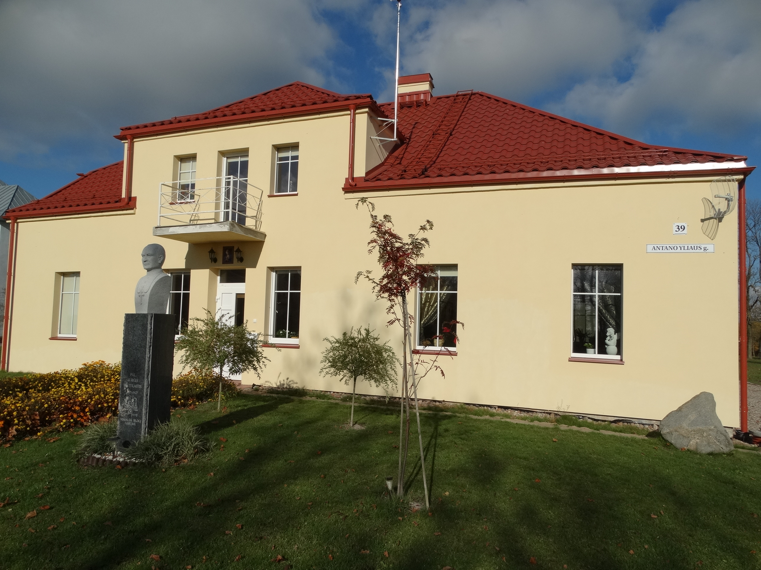 Clergy house, Skardupiai, Marijampolė district, Lithuania